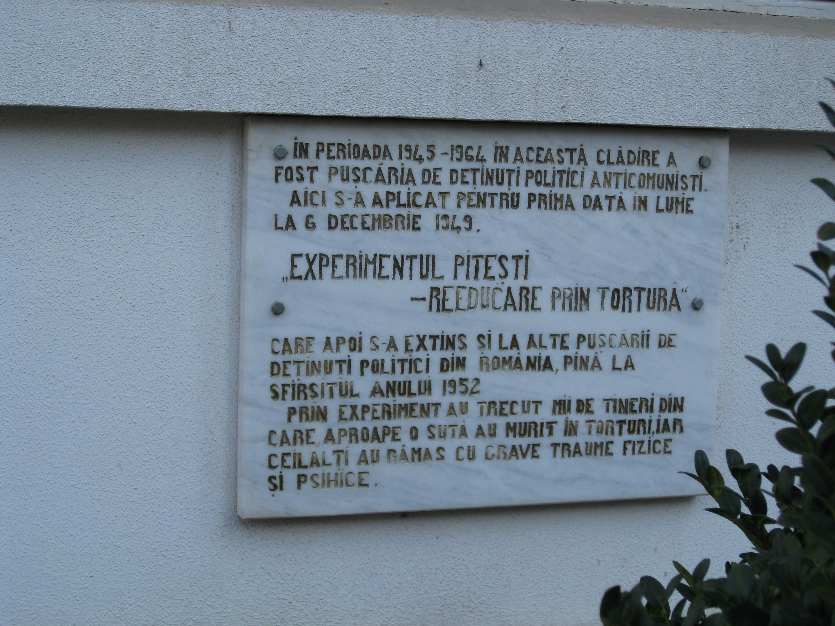 Plaque describing the Piteşti prison in Romania, on the entrance building